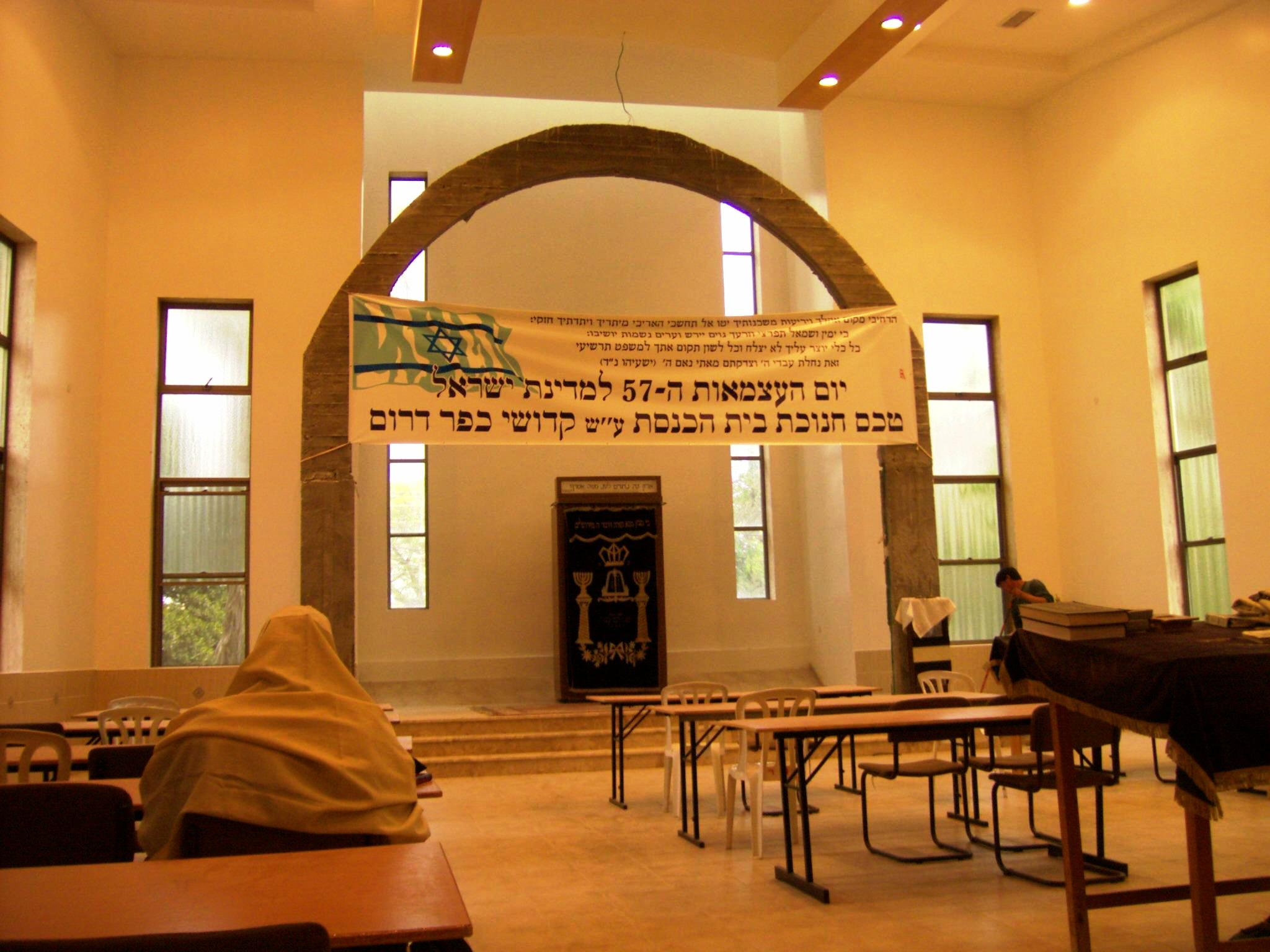 Synagogue_at_Kfar_Darom_2005